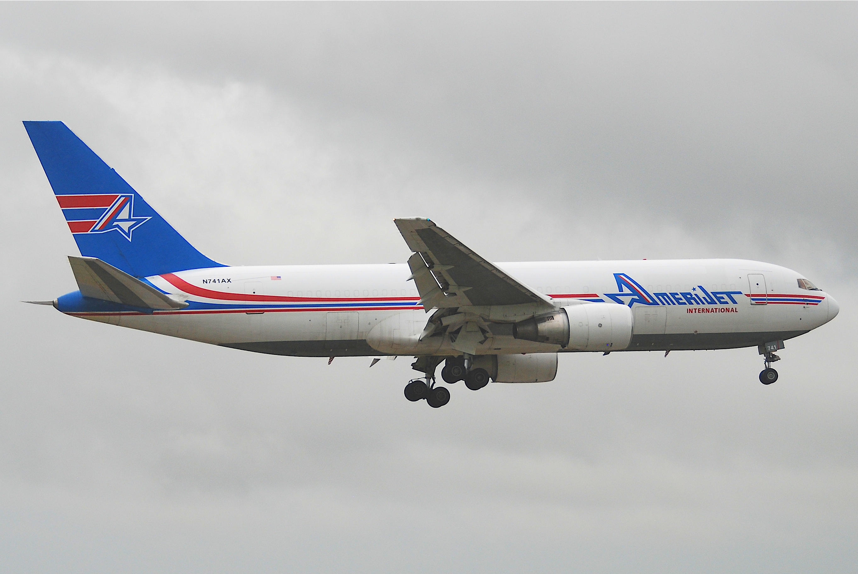 This Boeing 767-232 took its first flight on September 25, 1982...(c/n 22215/ 17) 29/10/1982 Delta Air Lines N103DA stored at VCV 02/2007 07/03/2007 ABX Air N103DA 04/05/2007 ABX Air N741AX Freighter conversion by IAI 02/03/2010 Amerijet International N741AX